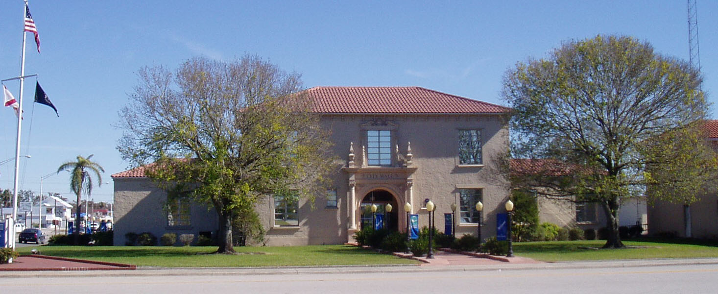 City Hall of Okeechobee, Florida, listed in A Guide to Florida's Historic Architecture.